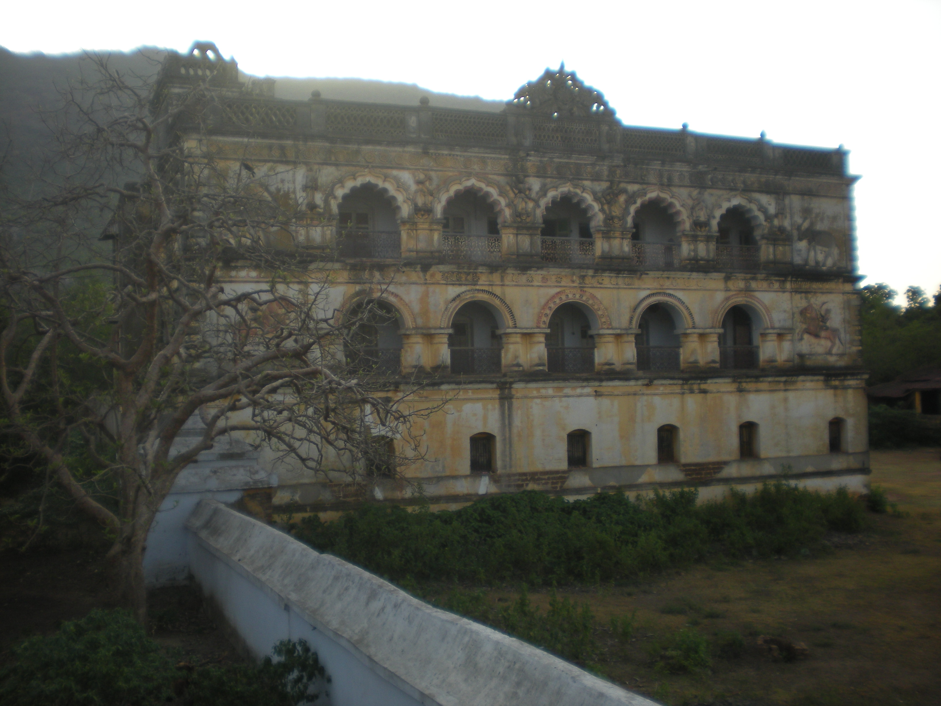 Ranpur palace is a historic glory of Ranpur Raj family. This was the residence of Ranpur, Raj family. Now this structure is in saturated condition owing to track of maintainance.